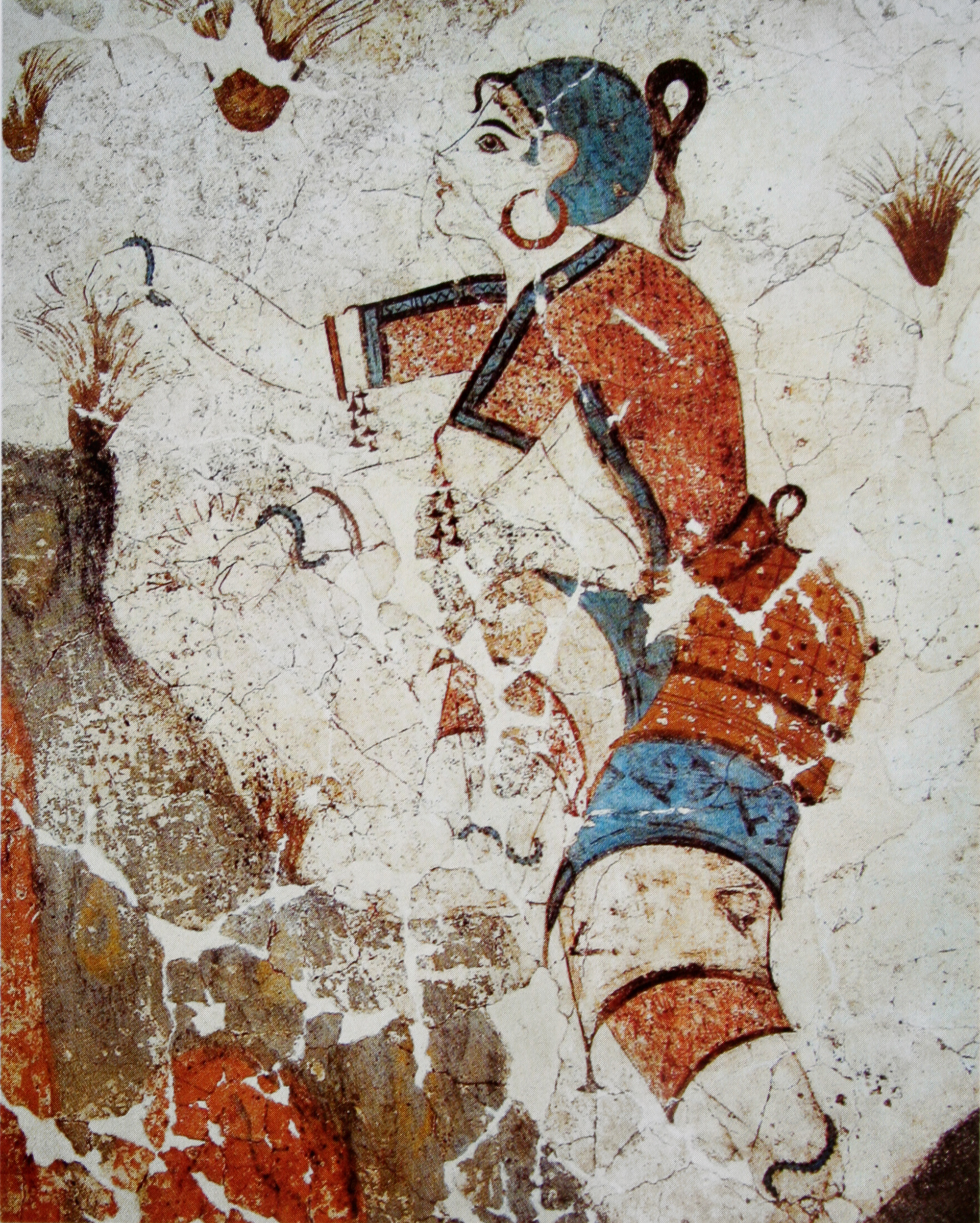 Saffron gatherer, fresco, Akrotiri, Greece.